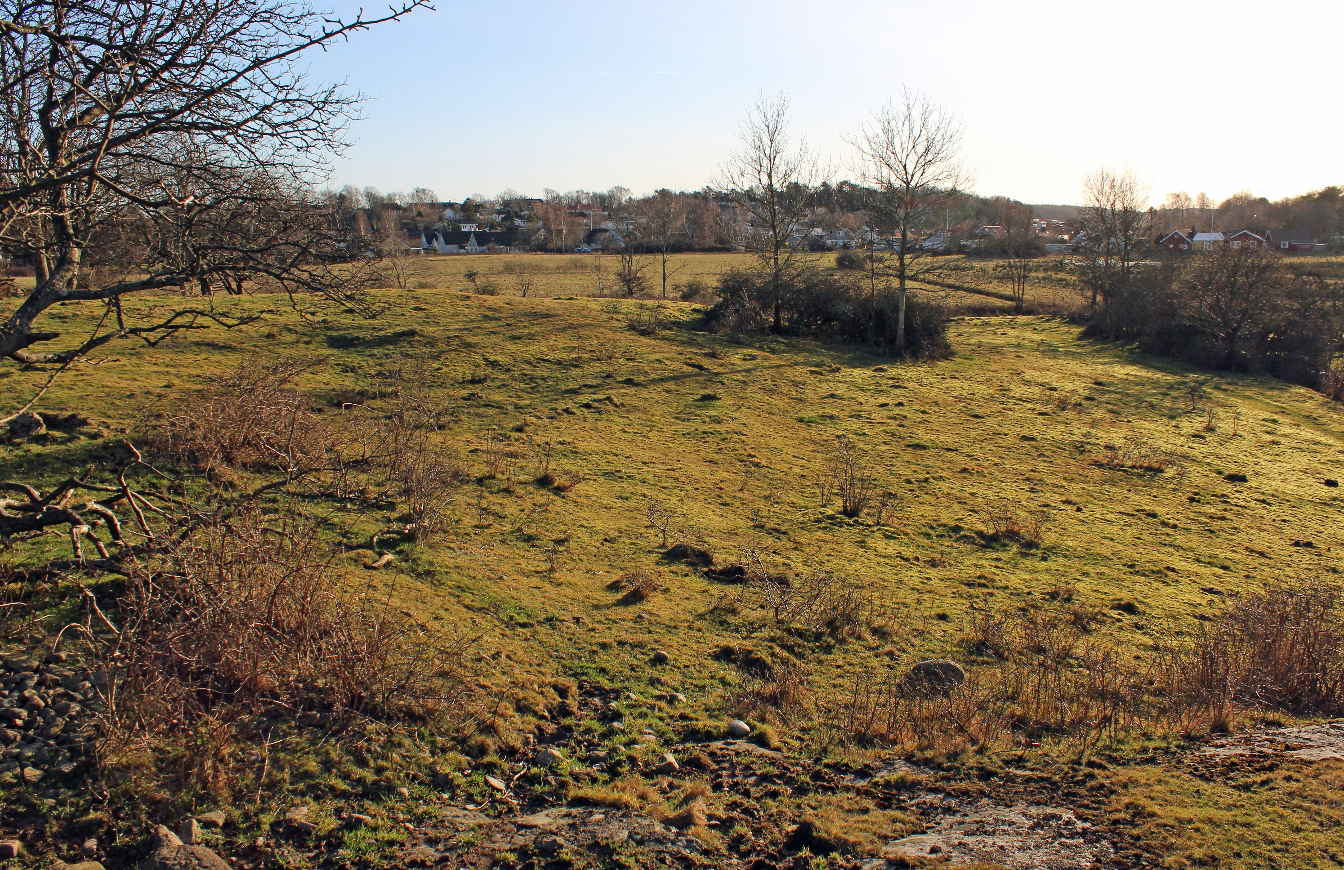 Timanshöjden near Mårtagården in Onsala, Halland, Sweden.